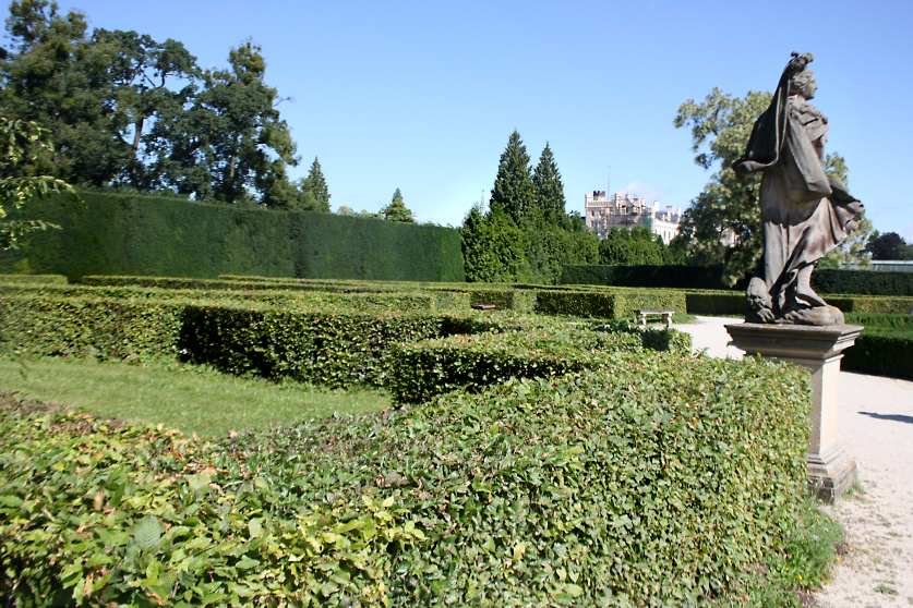 Lednice na Moravě, Czech republic, english park